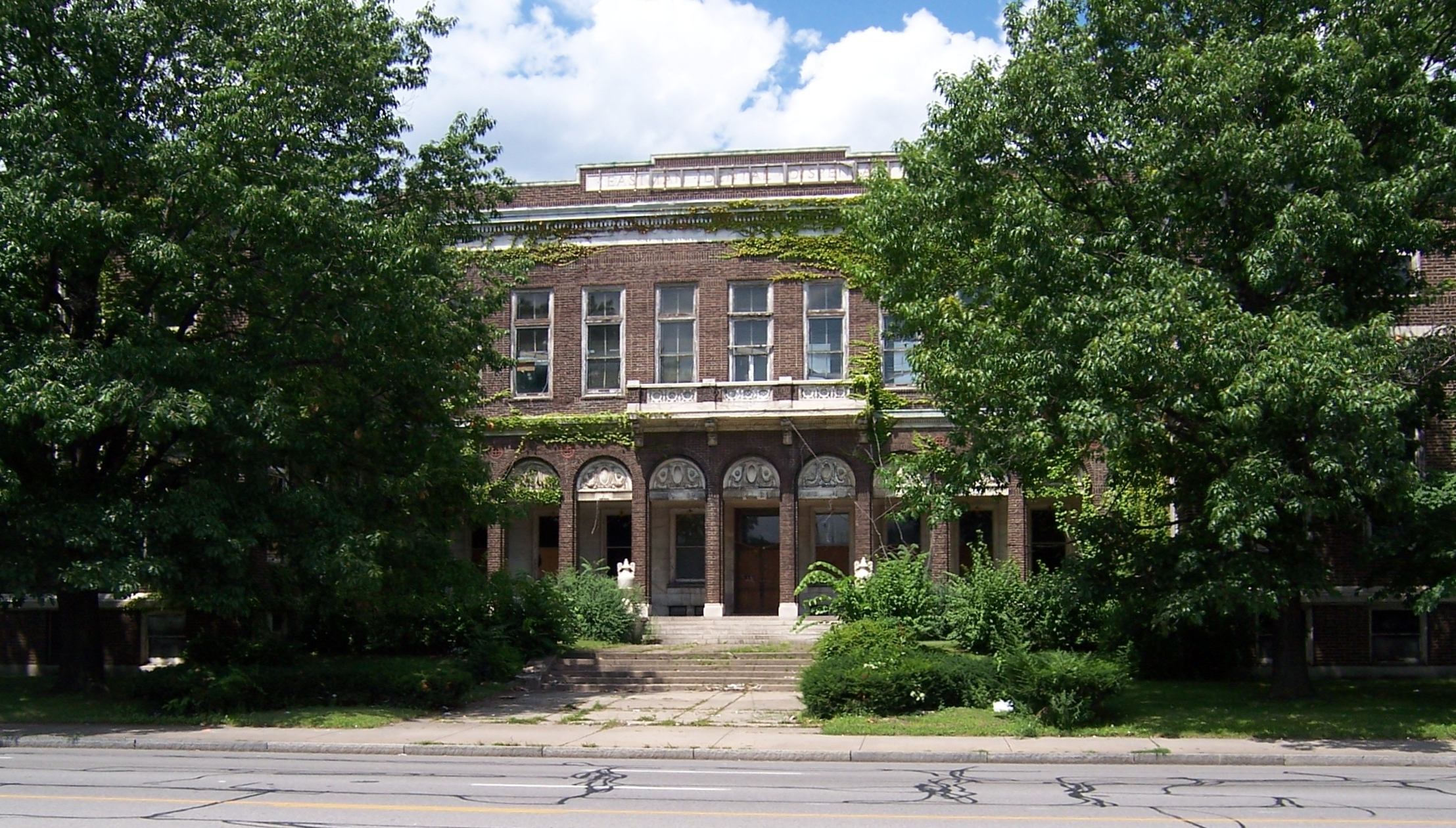 The Eastman Dental Dispensary in Rochester, New York. It is named after George Eastman, the founder of the Eastman Kodak company. Located on East Main Street, the building is listed on the National Register of Historic Places.